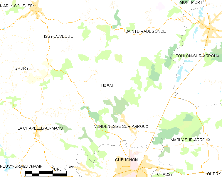 Map of French municipality